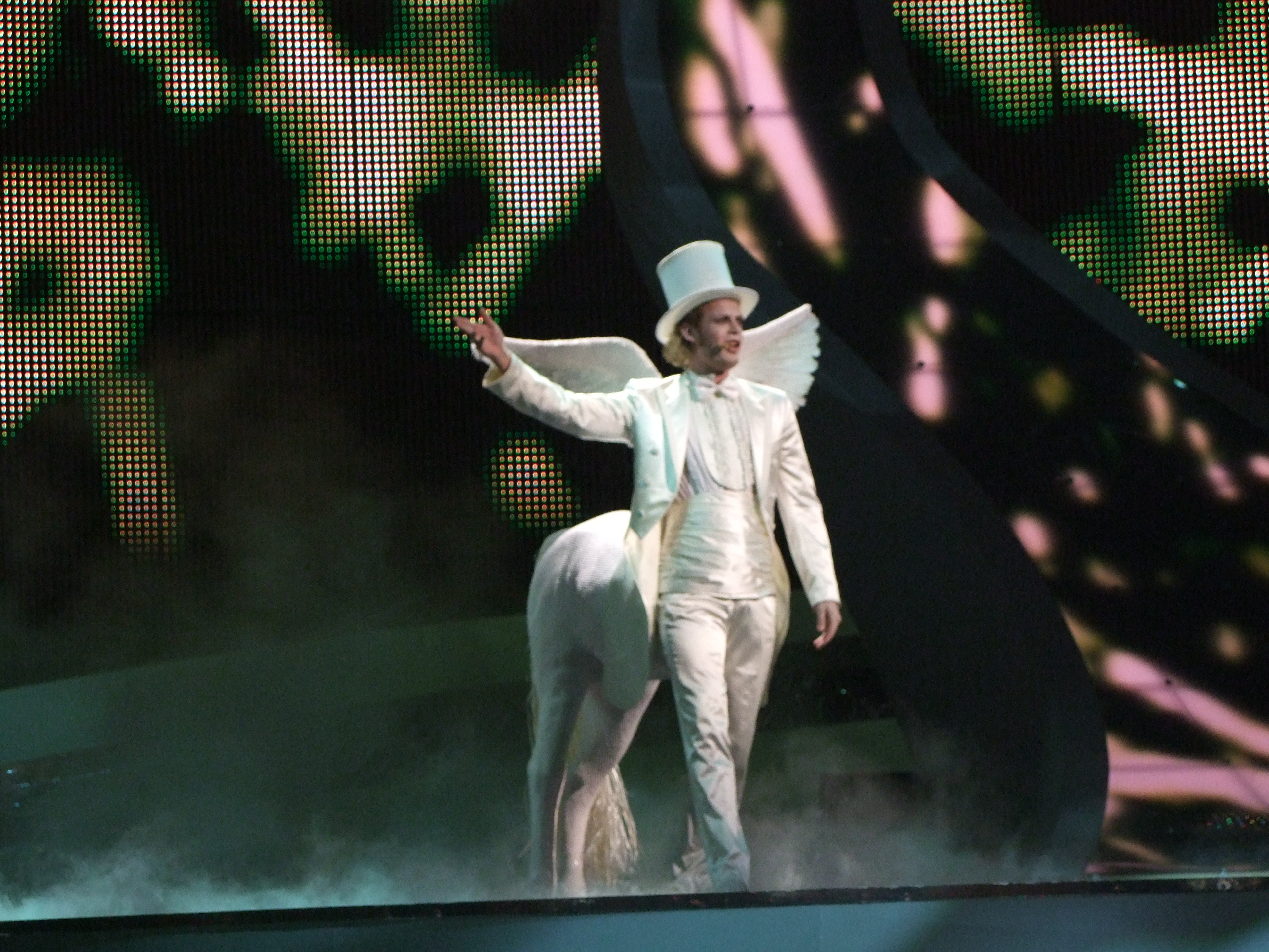 Eurovision Song Contest 2008, 2nd semifinal opening act